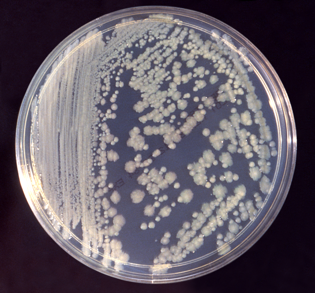 Rough and smooth colony growth of Enterobacter cloacae bacteria on Tryptic Soy Broth agar. Obtained from the CDC Public Health Image Library. Image credit: CDC(PHIL #6552), 1983.